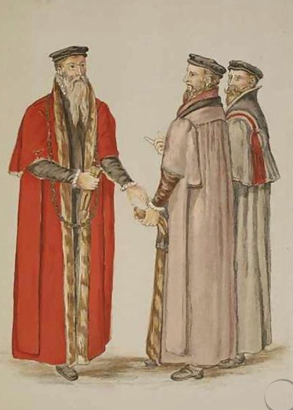 Lord-mayor, Alderman and Livery man of London Corte Beschryuinghe van Engheland, Schotland, ende Irland, c.1574.